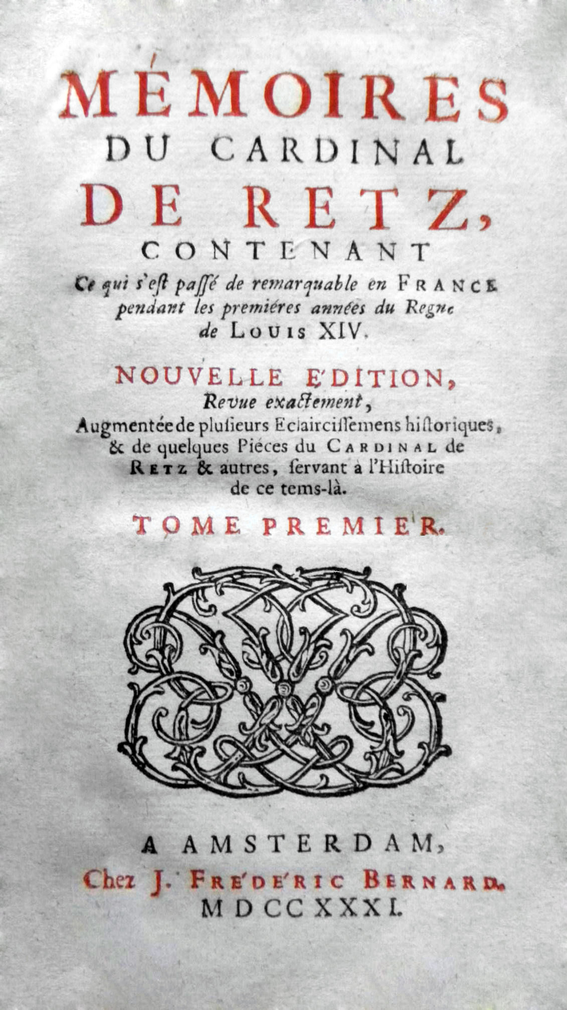 Cover of Book "Mémoires du Cardinal de Retz" publié à Amsterdam par Frédéric Bernard. Edition de 1731. (volume one)